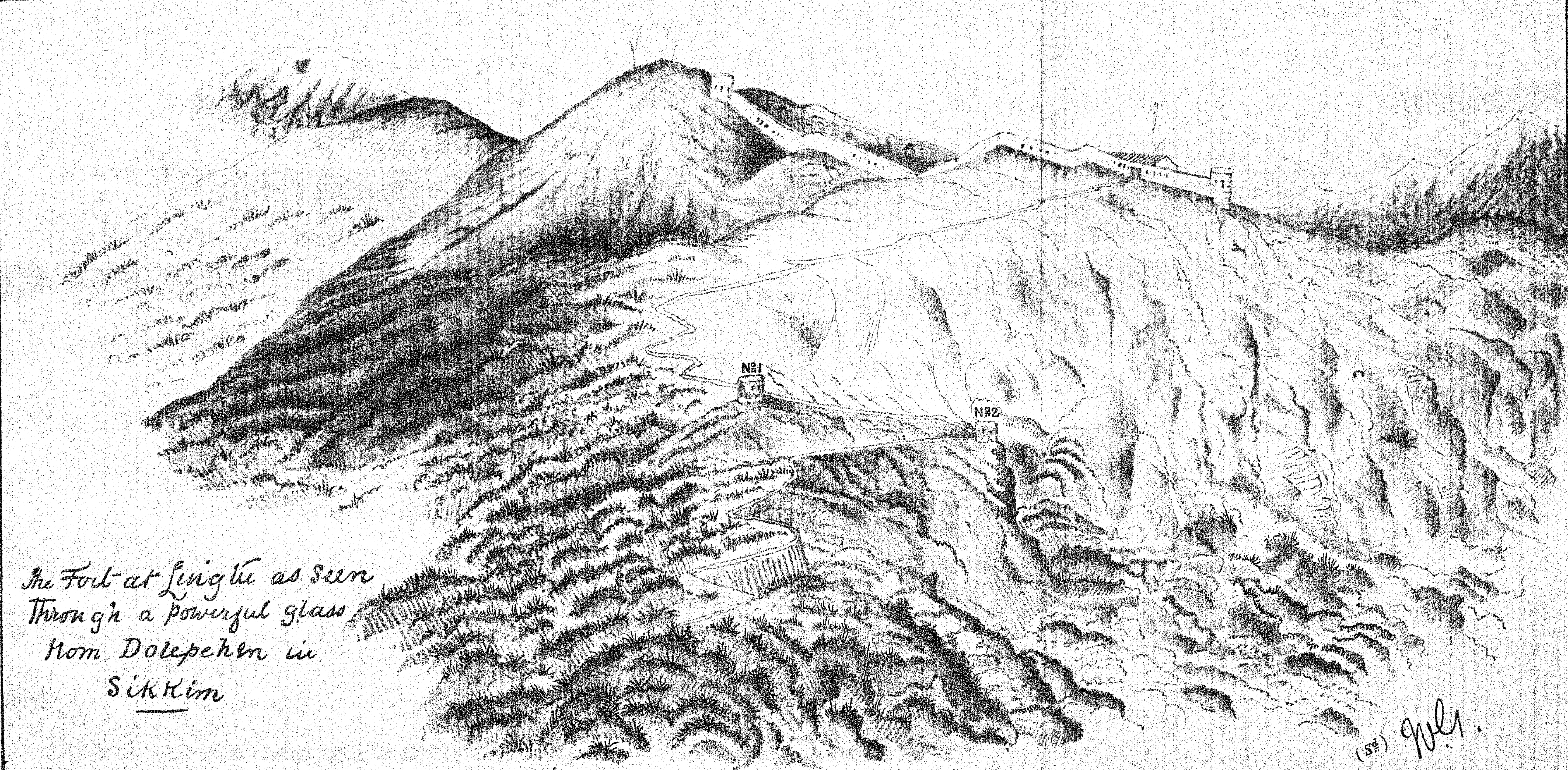 The fort at Lingtu as seen through a powerful glass from Dolepchen village in Sikkim.